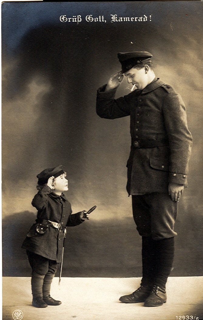 Postcard, undated (ca. 1915); Title: literally "God greets (you), Komrad !".